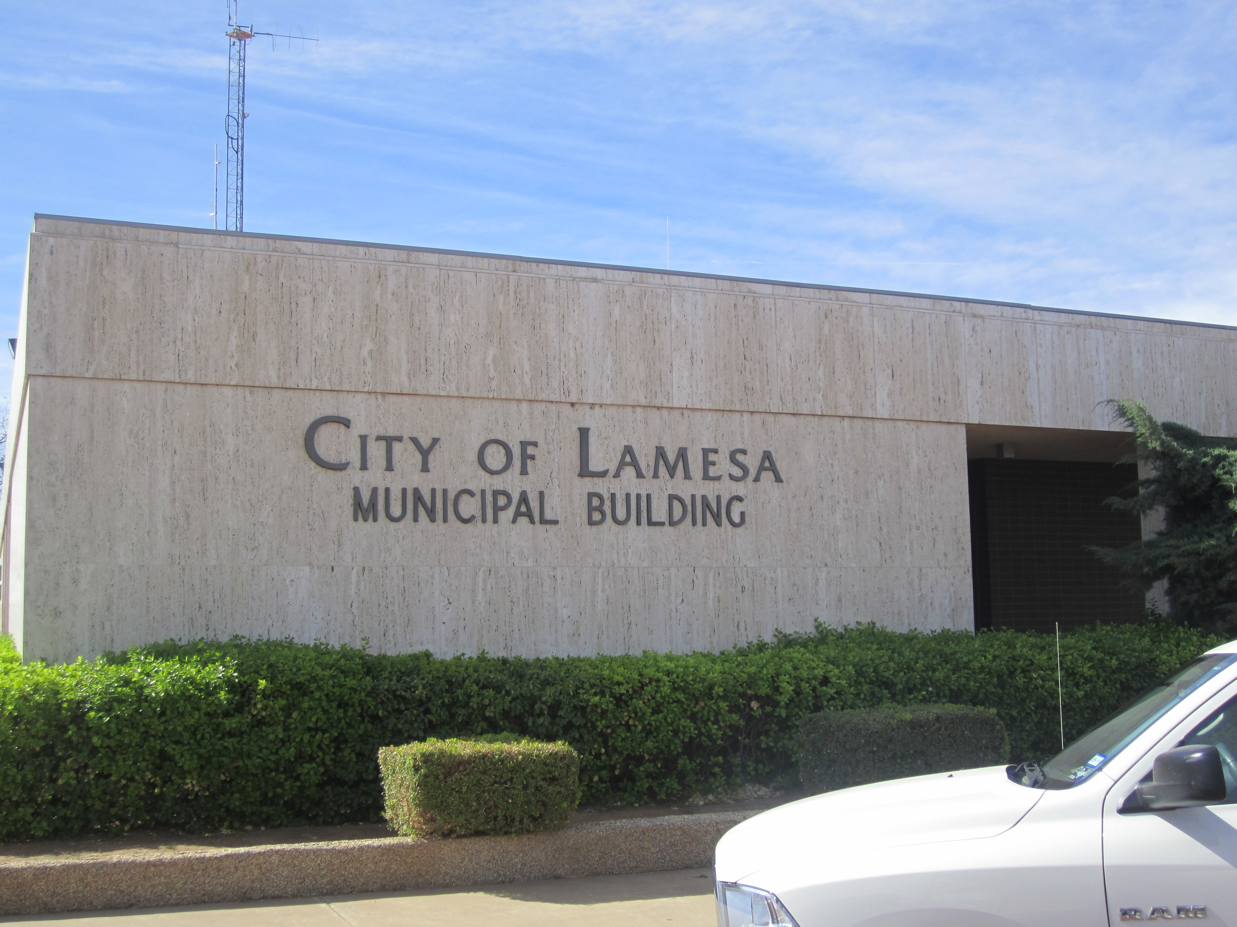 I took photo with Canon camera in Lamesa, TX.